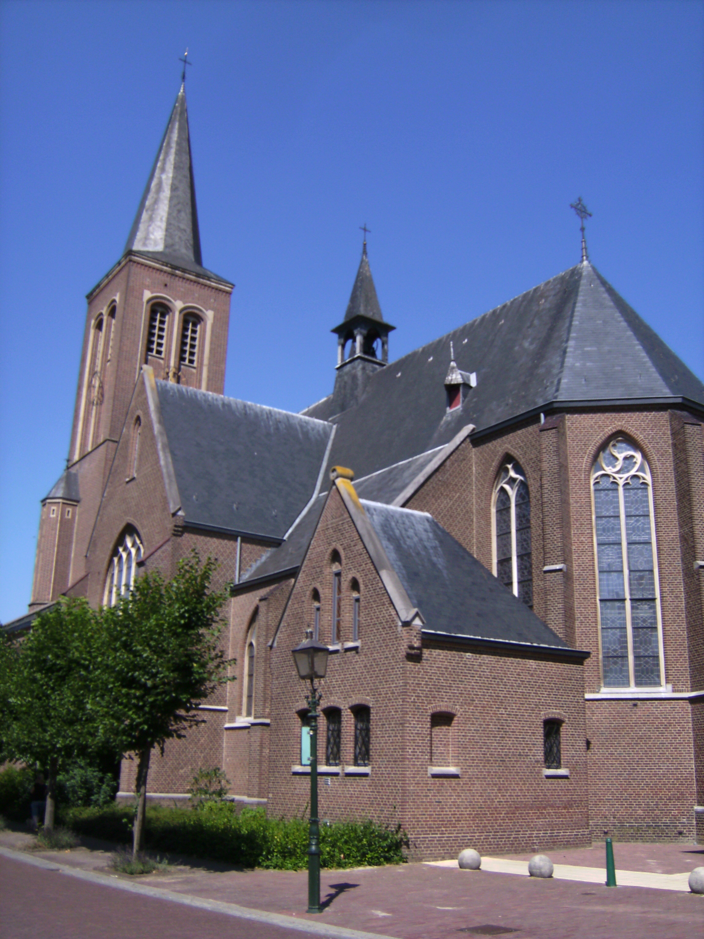 Maasbree, church